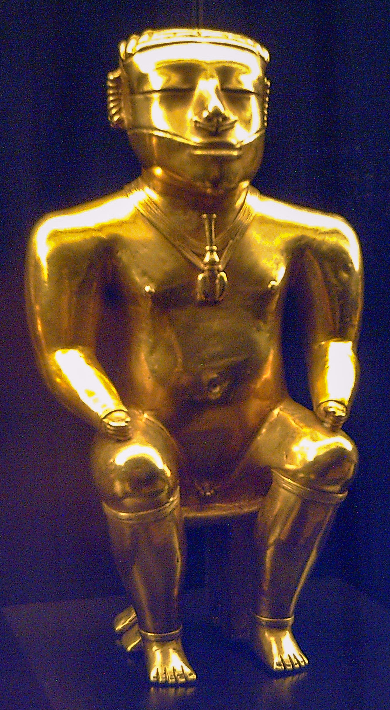 Sitting statuette of a Quimbaya cacique (chief, leader), from Colombia.